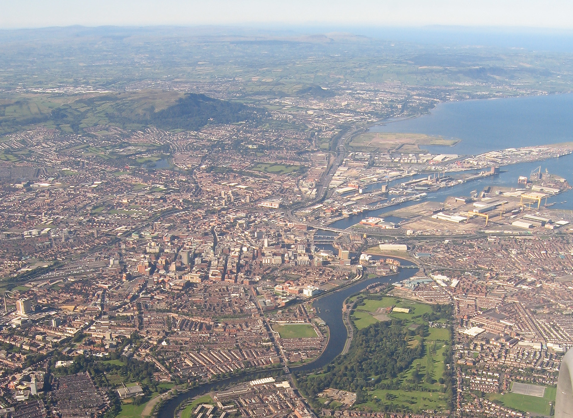 Aerial photo of south-east, central and north Belfast, taken from a plane on a clear evening, 9th September 2004. Includes the River Lagan, Stranmillis, Annadale Embankment, Ormeau Road, Ravenhill Road, Ormeau Park, City Hospital, parts of east and west Belfast, Belfast Docks, Mallusk, Cave Hill, Carnmoney Hill and extends to the Glens of Antrim, Causeway Coast and the coast of Scotland in the distance.